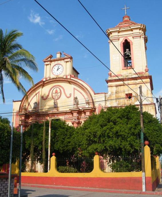 Saint Francis of Assisi Church, Tetecala, Morelos, Mexico